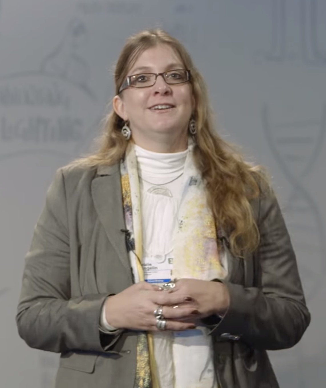 Imagine a plastic computer chip that works by processing light, or a plastic window that keeps heat in buildings. Natalie Stingelin, Professor of Functional Organic Materials at Imperial College London, explains how plastics are becoming ultra-smart materials with new properties that have potential applications from architecture to medicine to agriculture.